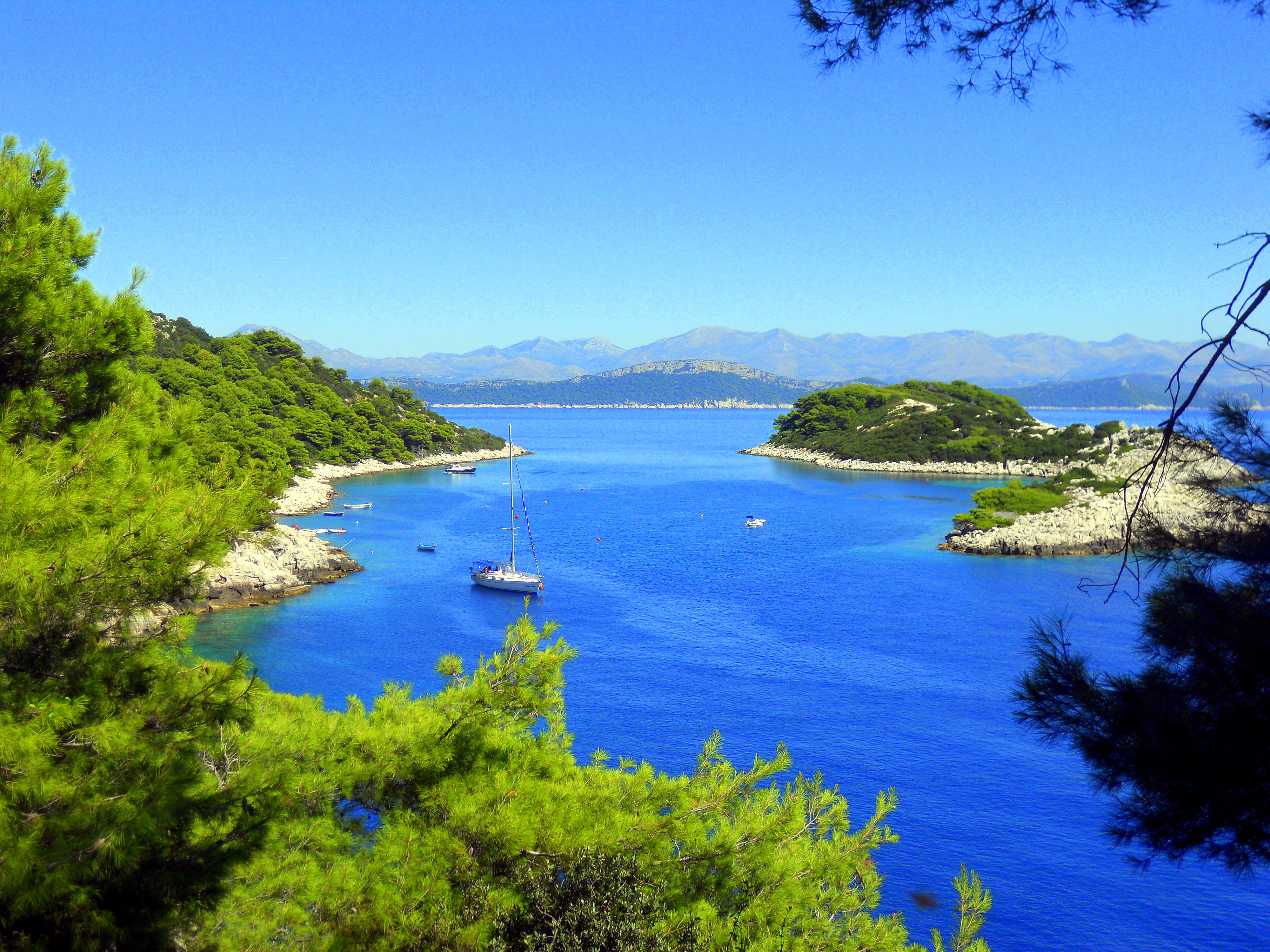 View from Saplunara towards the Peljesac peninsula